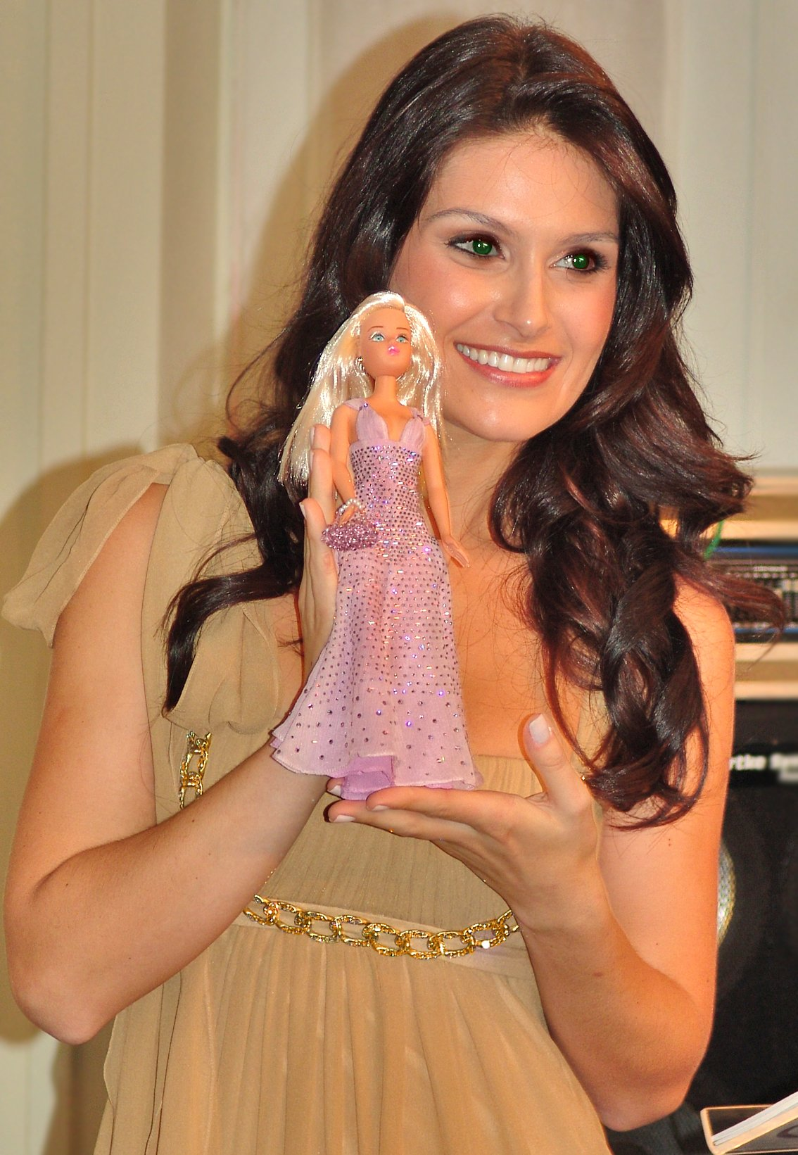 Miss Brasil Natália Guimarães.